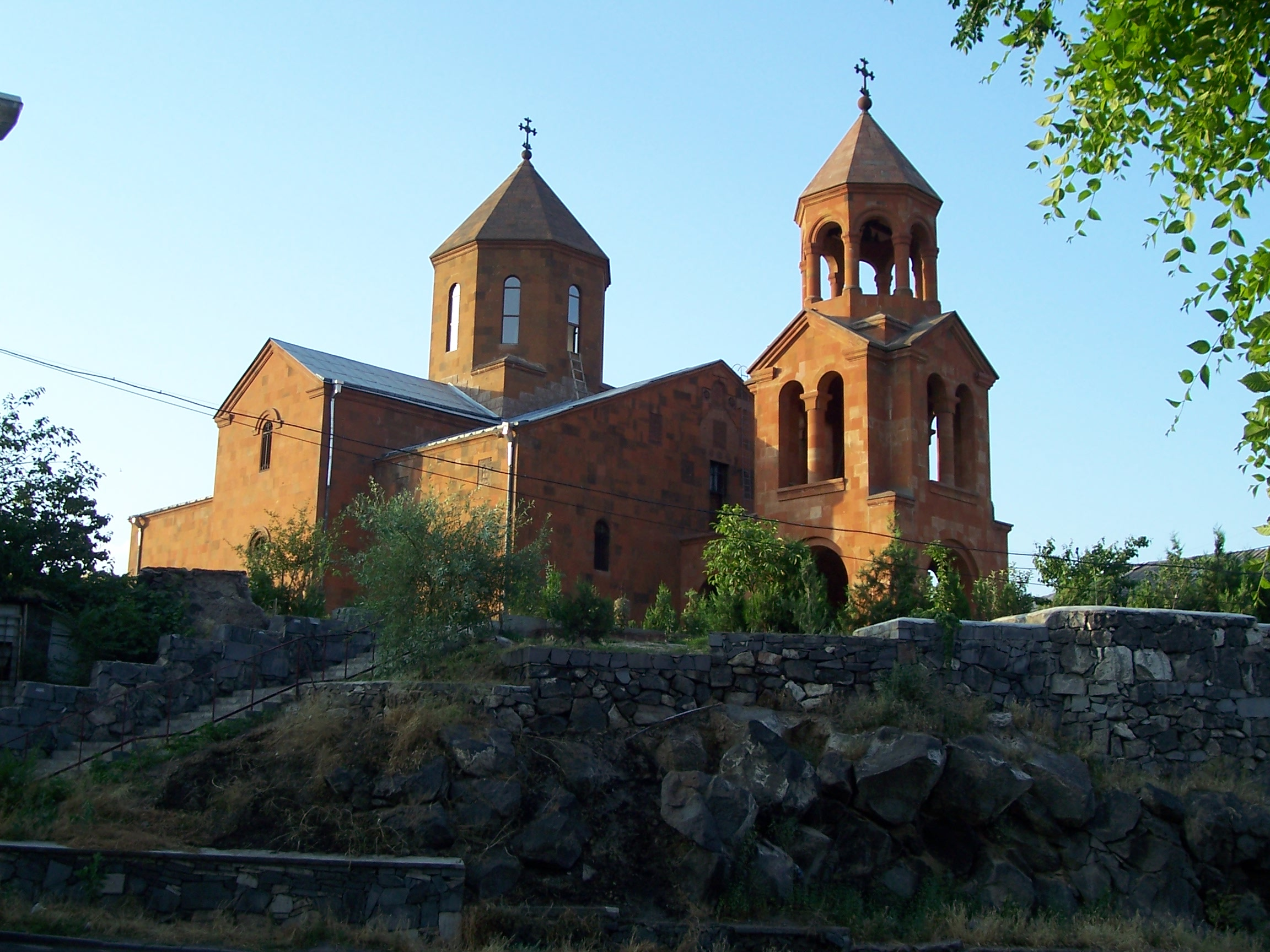 St. John the Baptist Church of Yerevan (view from Proshyan Street)